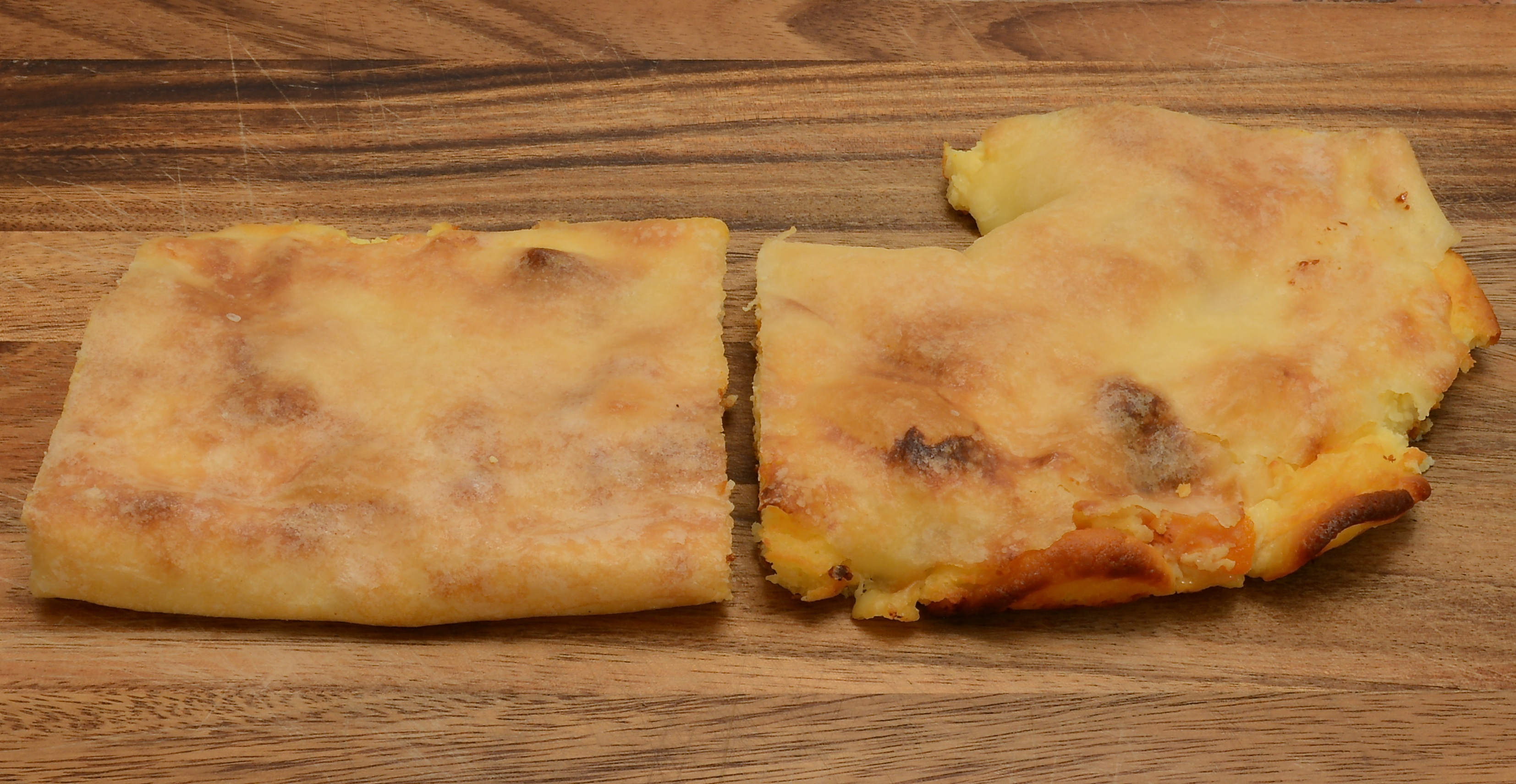 Burgenländischer Hausfrauenstrudel aus Kobersdorf